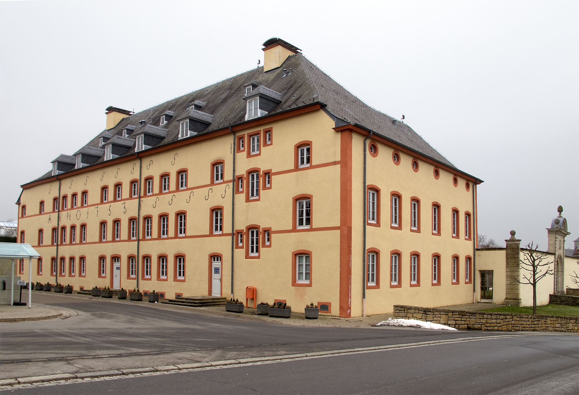 Castle Bettange-sur-Mess